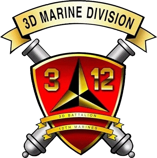 United States Marine Corps 3rd Battalion 12th Marines insignia. Made with Photoshop.